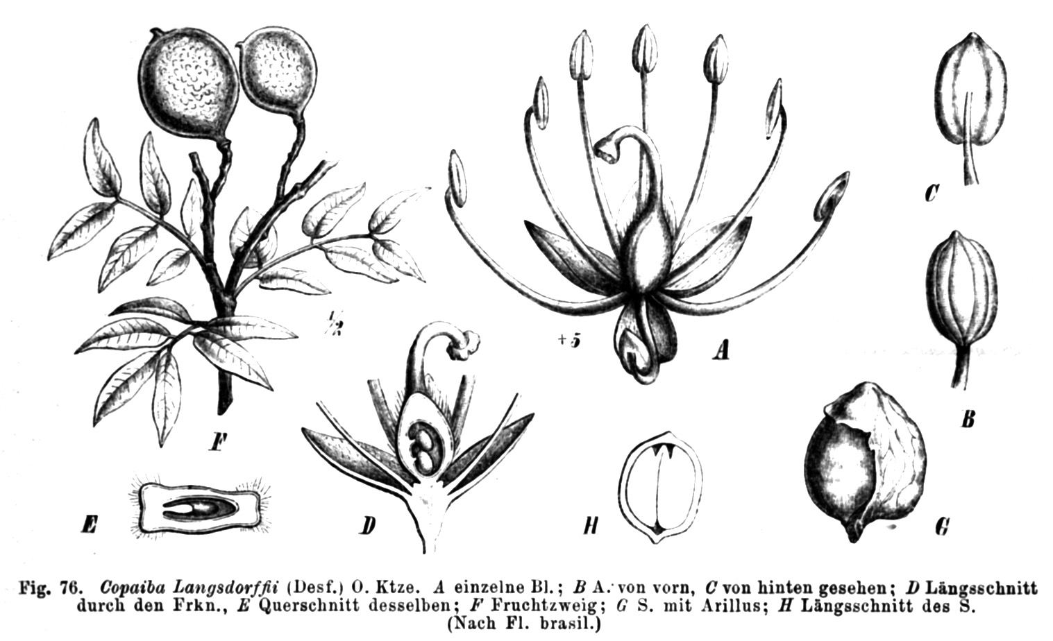 Illustration from book